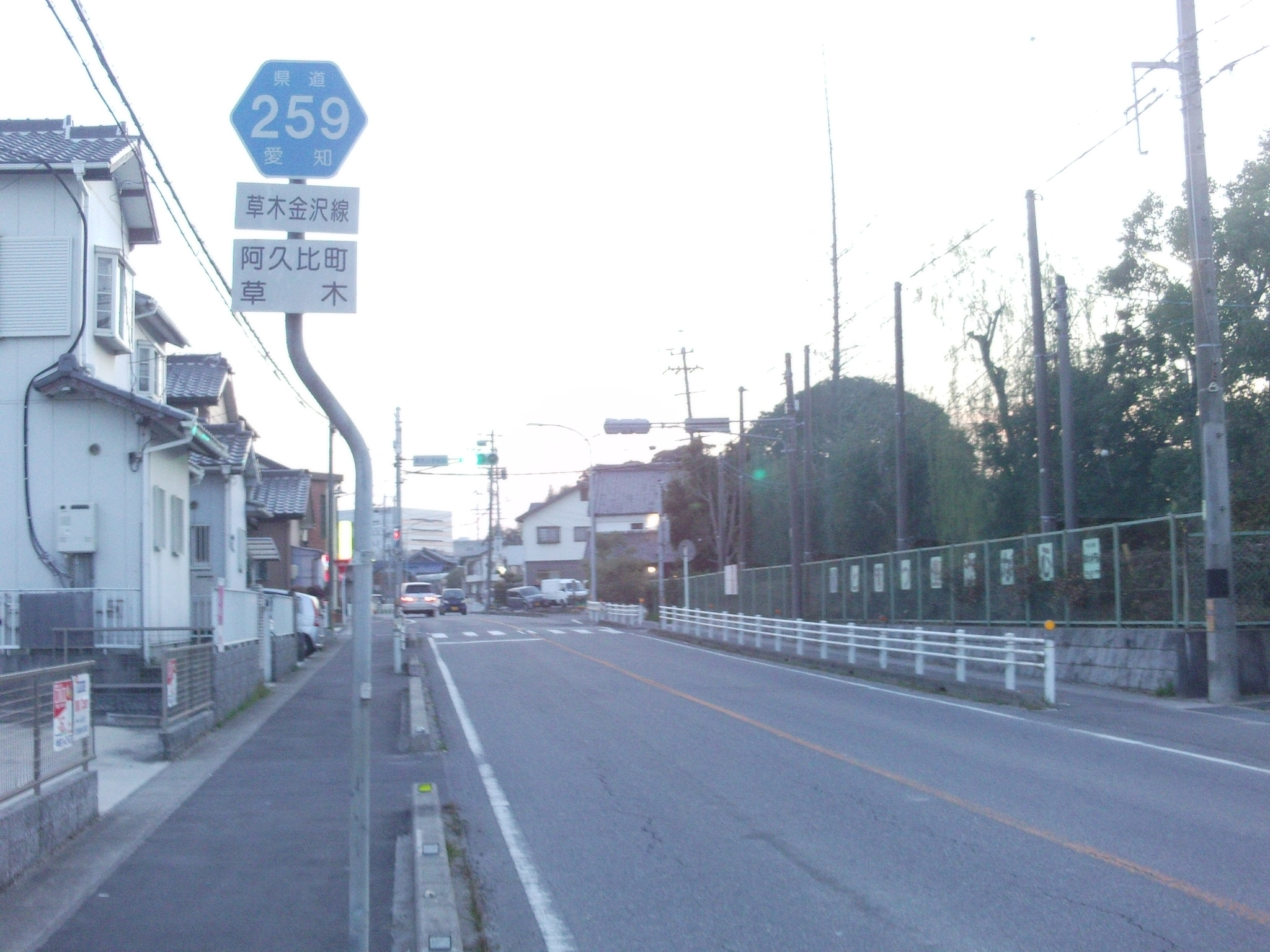 Aichi prefectural road No.259 in Kusagi, Agui-cho, Chita-gun, Aichi.